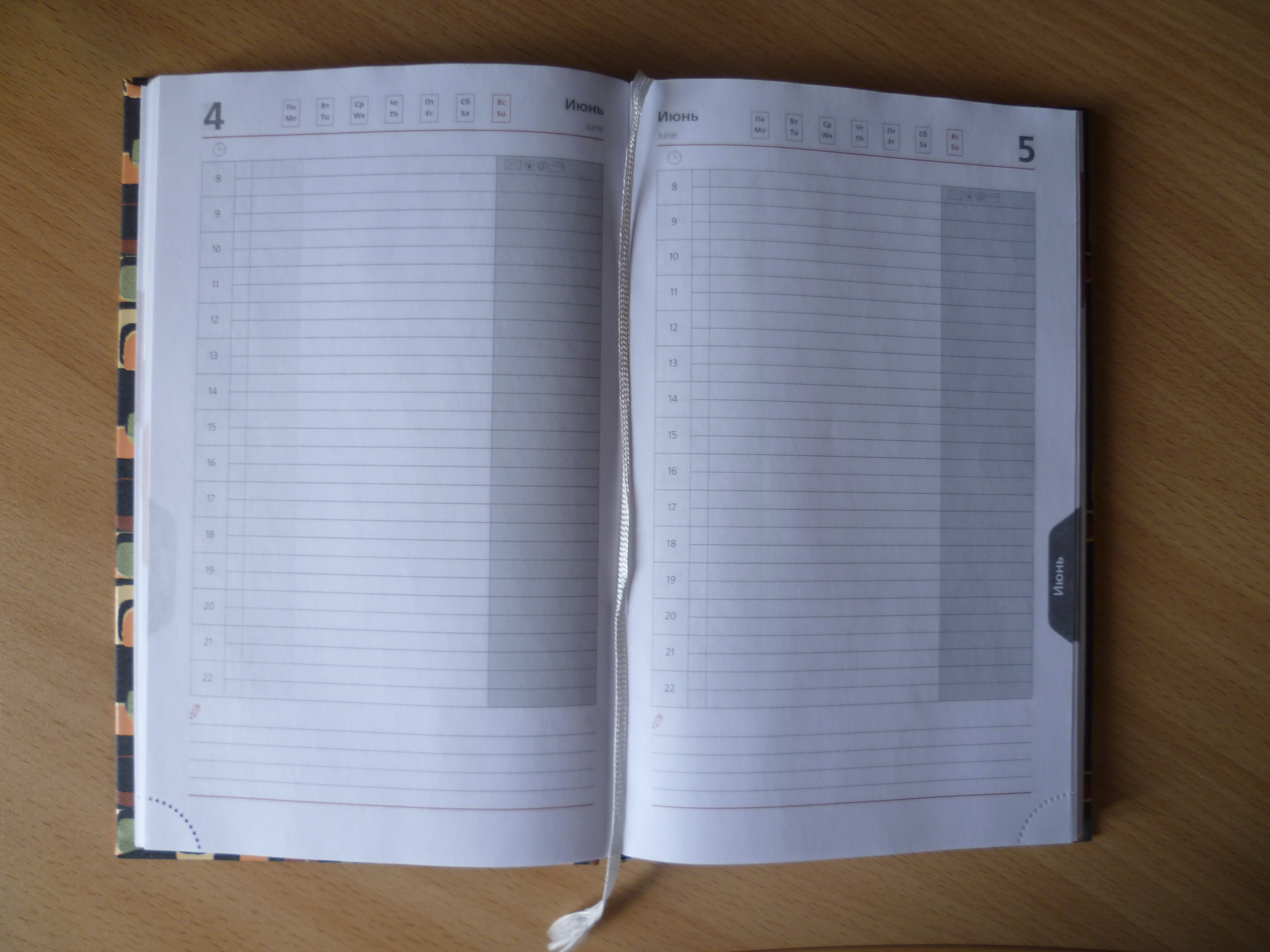 Diary is open on page "4th June"